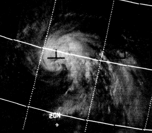 This image of Tropical Storm Polly was taken by the ESSA 5 satellite on August 6. 1968 at 0549z